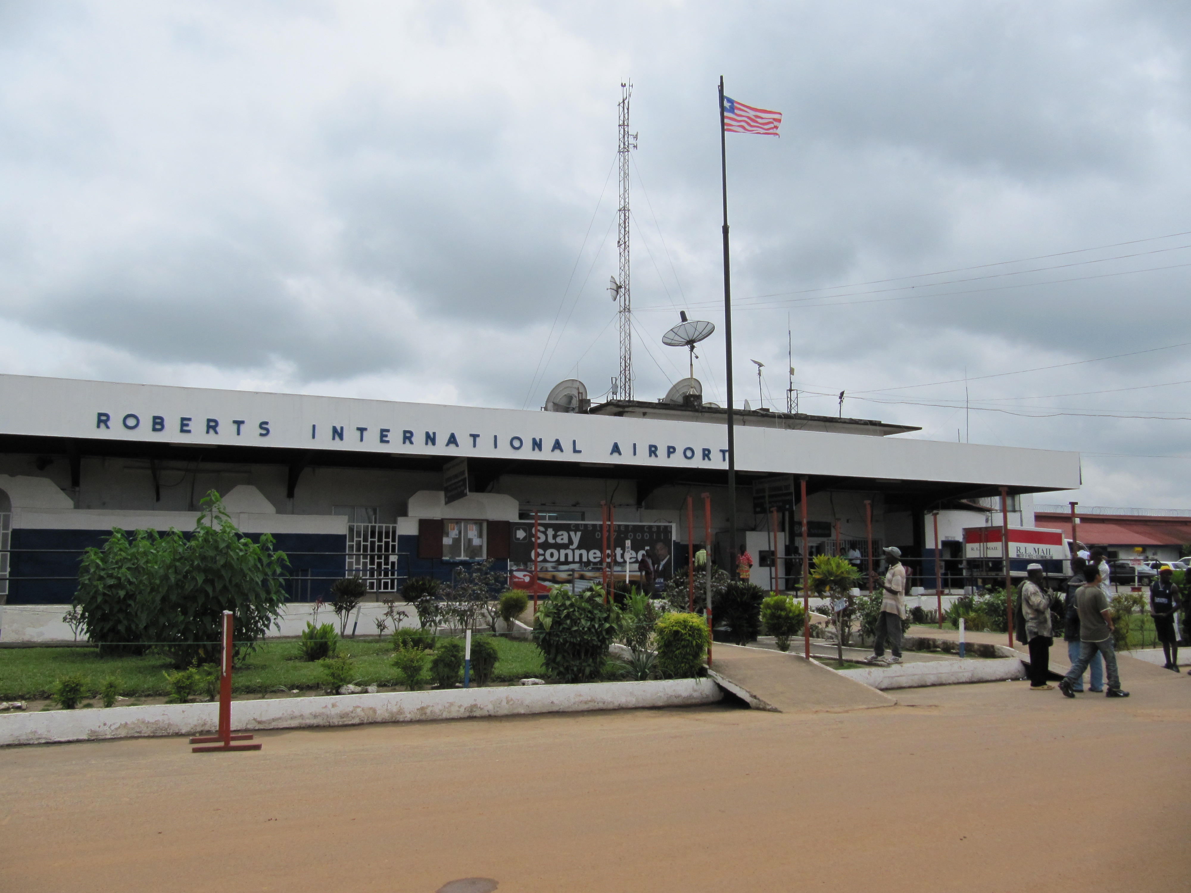 Roberts International Airport, near Monrovia, Liberia.